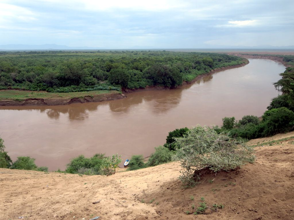 The Omo River flows entirely within Southern Ethiopia, emptying into Lake Turkana near the Kenyan border. For better of worse, the Gilgel Gibe III Dam currently under construction far upstream will transform this region.